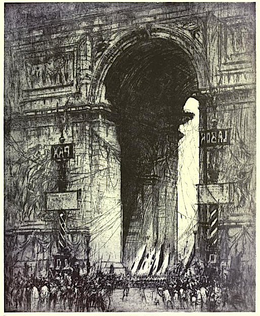 Arc de Triomphe, etching by William Walcot.